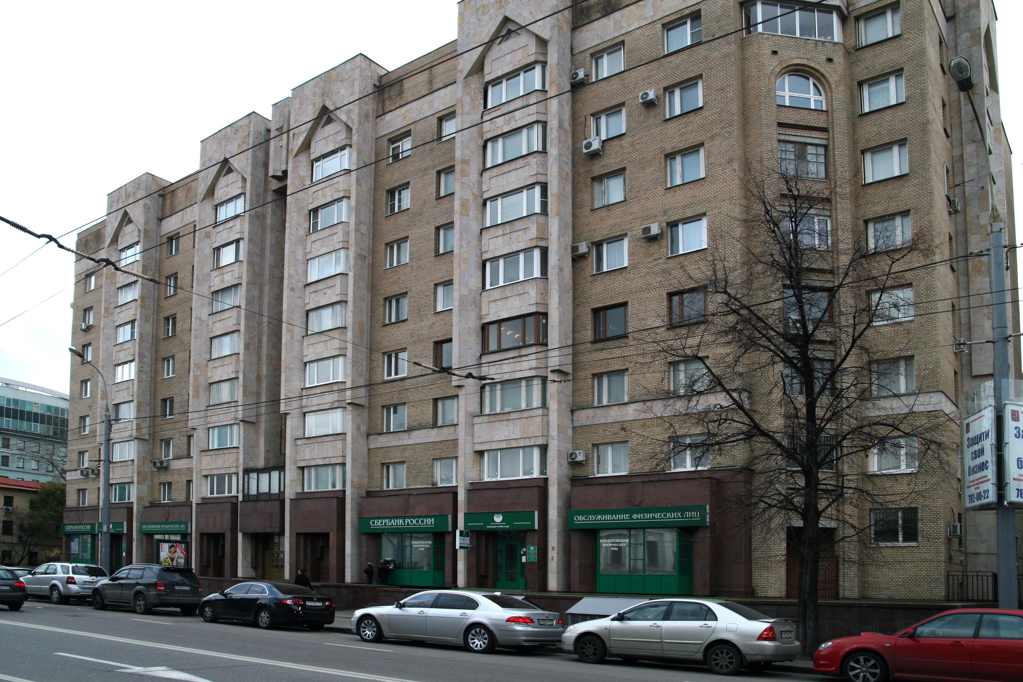 Moscow, Malaya Dmitrovka Street 15